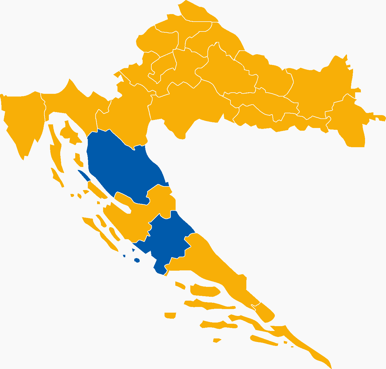 Results of the 2005 presidential election in each county of Croatia.